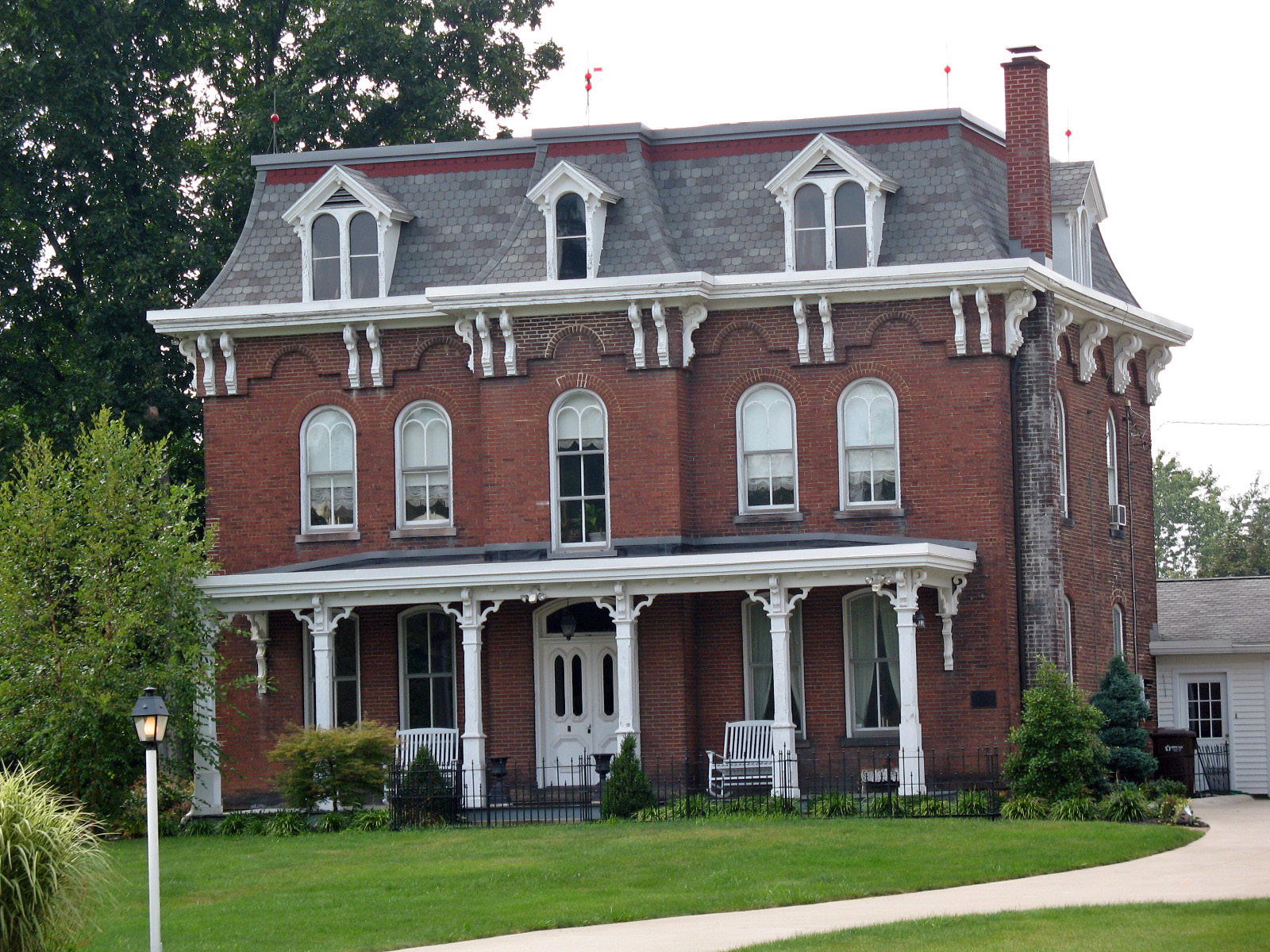 Registered Historic Places in Stark County, Ohio. Jacob H. Bair House, 7225 Market Ave. N., Canton, Ohio, USA. Photographed 2008-08-29 from the west side of Market Ave. N., north of Markley St.